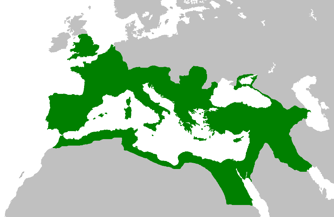 Map of the Roman Empire at its height, under Trajan.